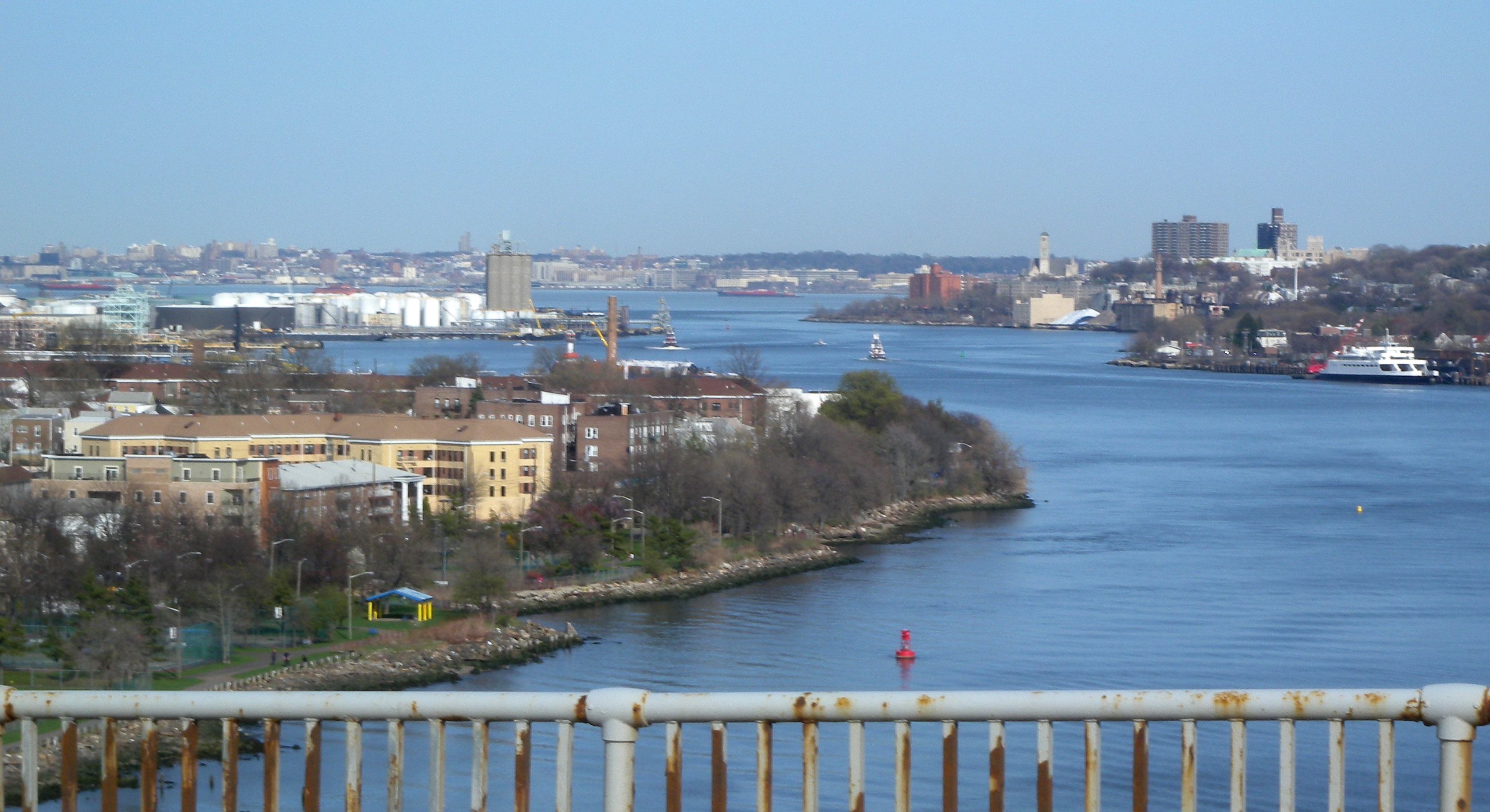 Looking east along Kill Van Kull on a sunny early afternoon, same as File:Kill Van Kull BB jeh.JPG but while standing on something with camera held up above my head.